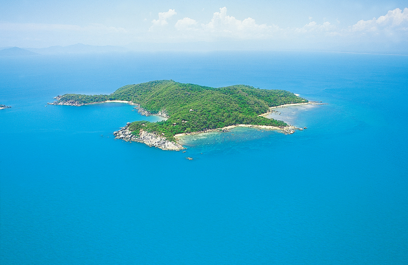 Aerial of Bedarra Island